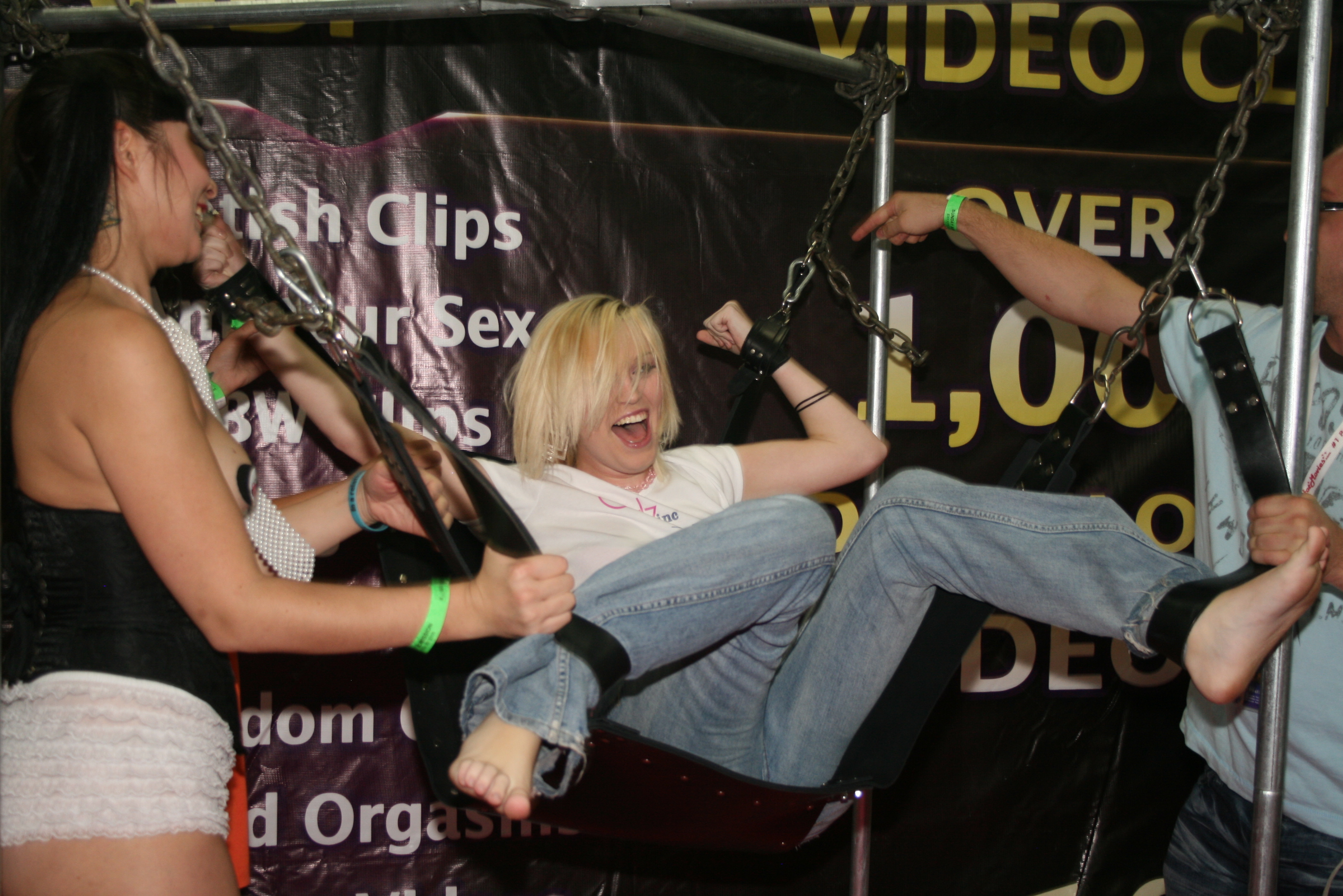 A woman being tickled while restrained and suspended at Exxxotica 2009 in New Jersey.